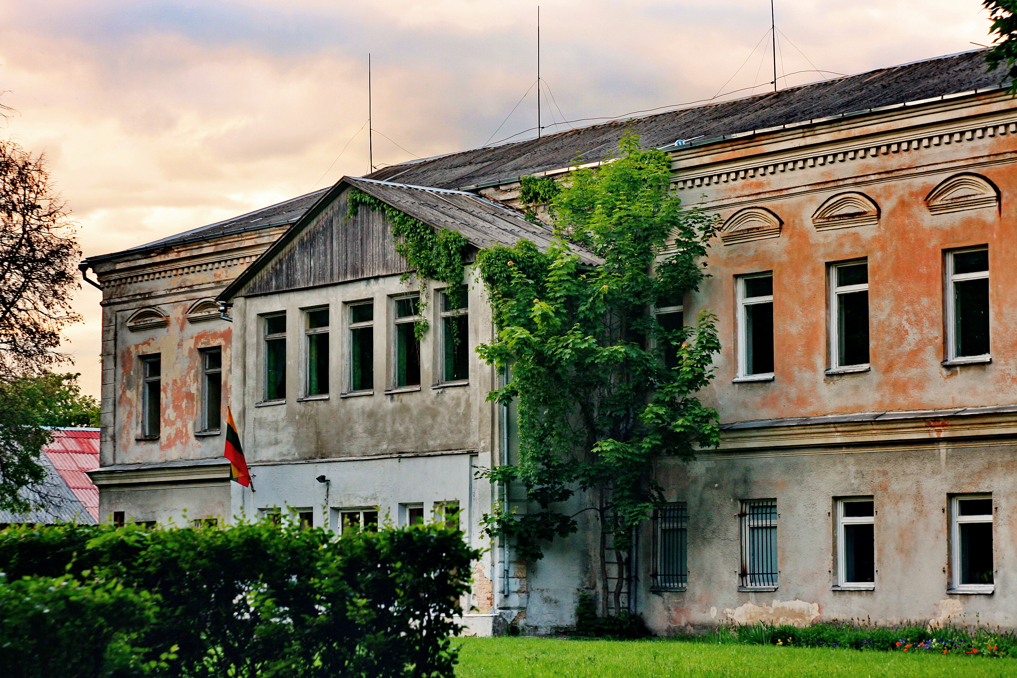 Buivydiškės Manor palace, Vilnius City